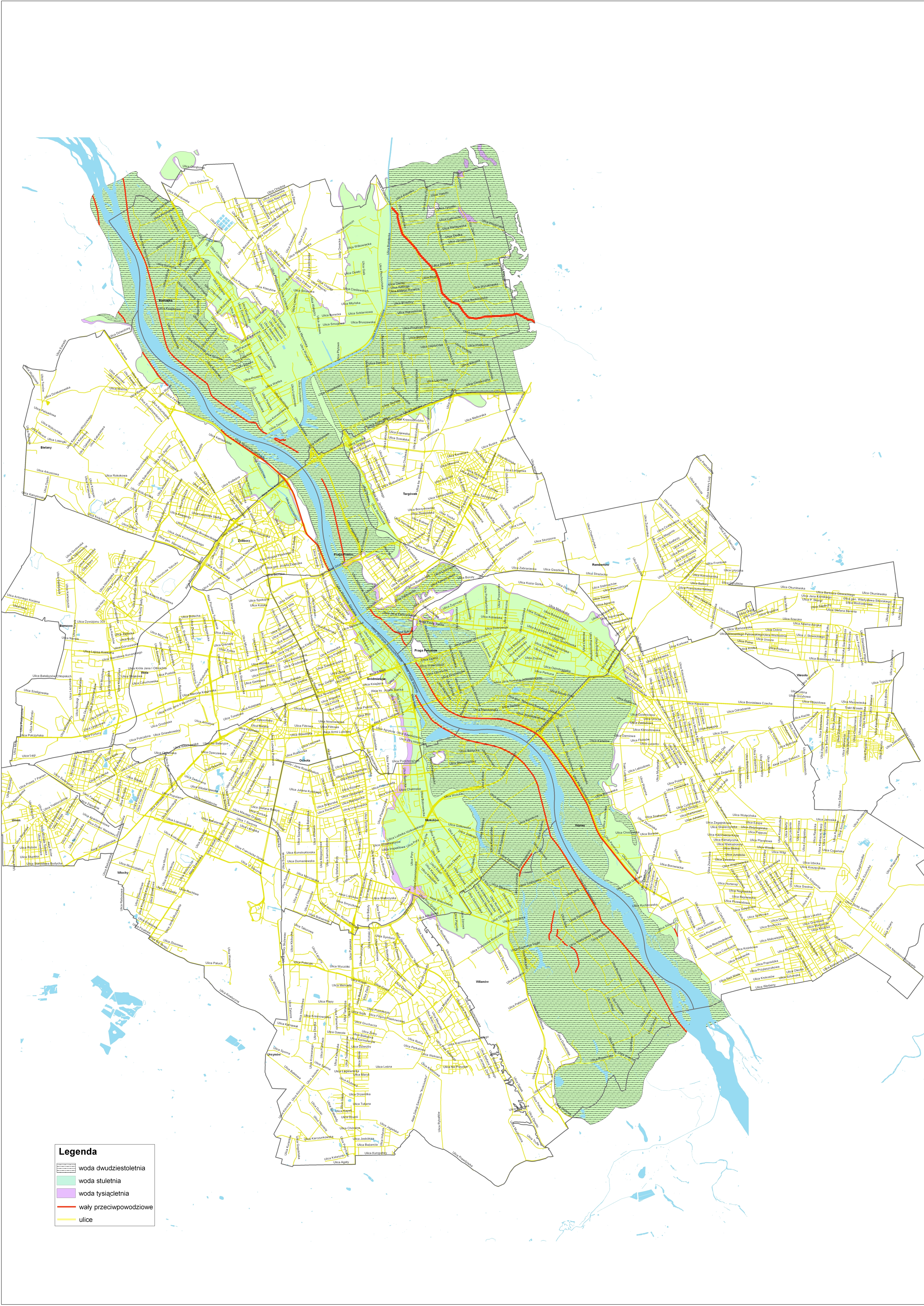 Area of possible flood in Warsaw